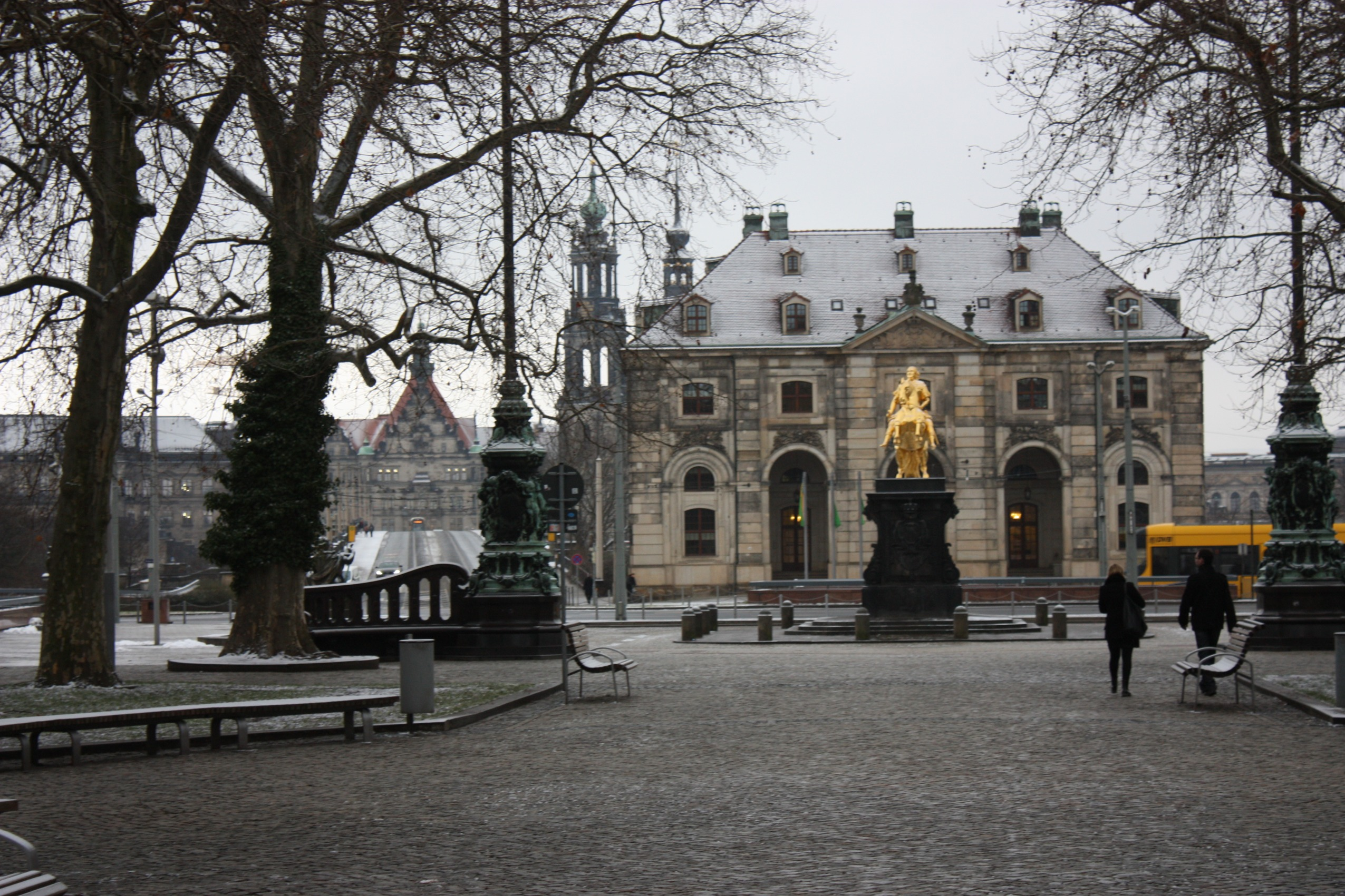 Dresden, the guardhouse and the Golden Rider